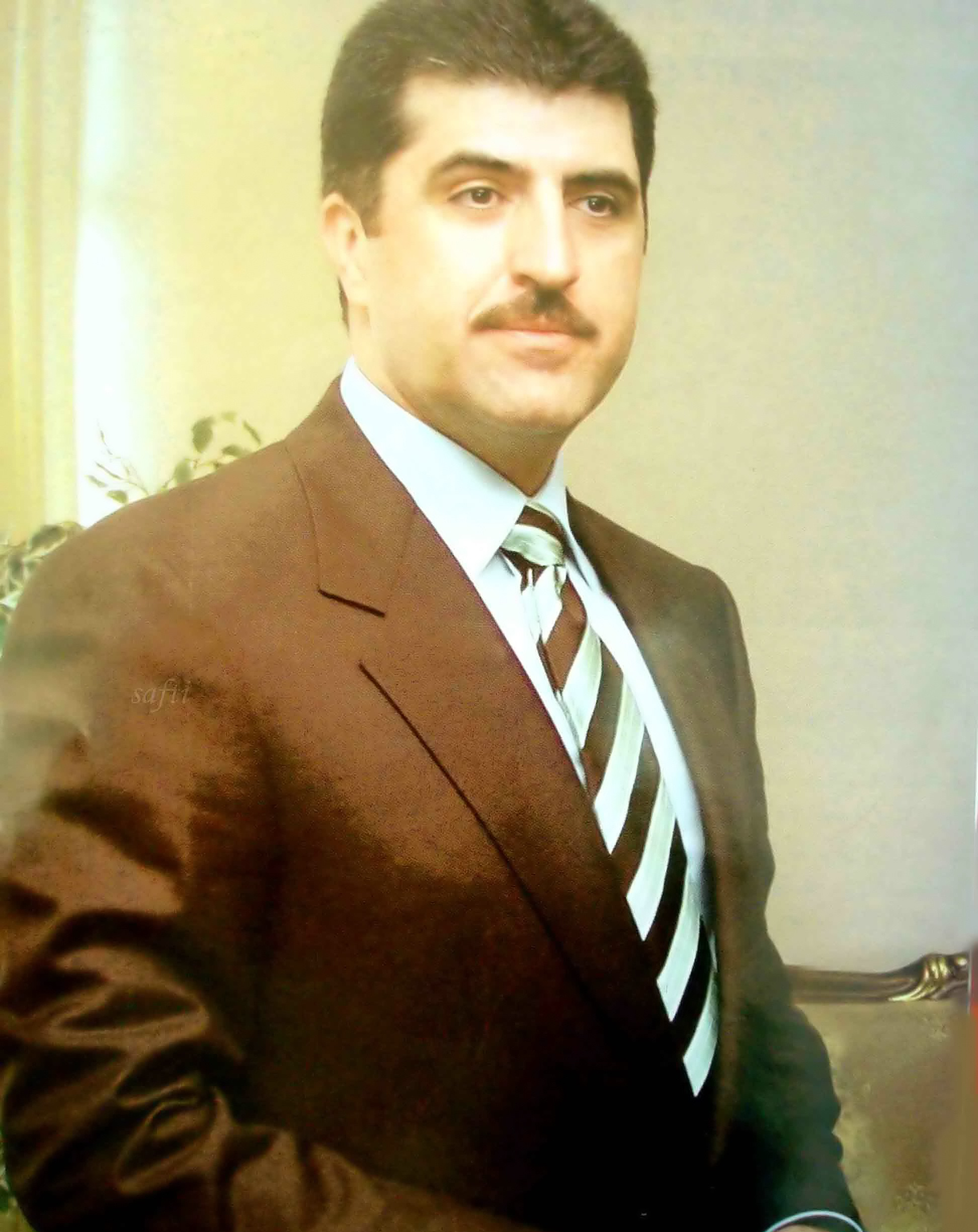 Photo of the Prime Minister of Kurdistan: Nechervan Idris Barzani